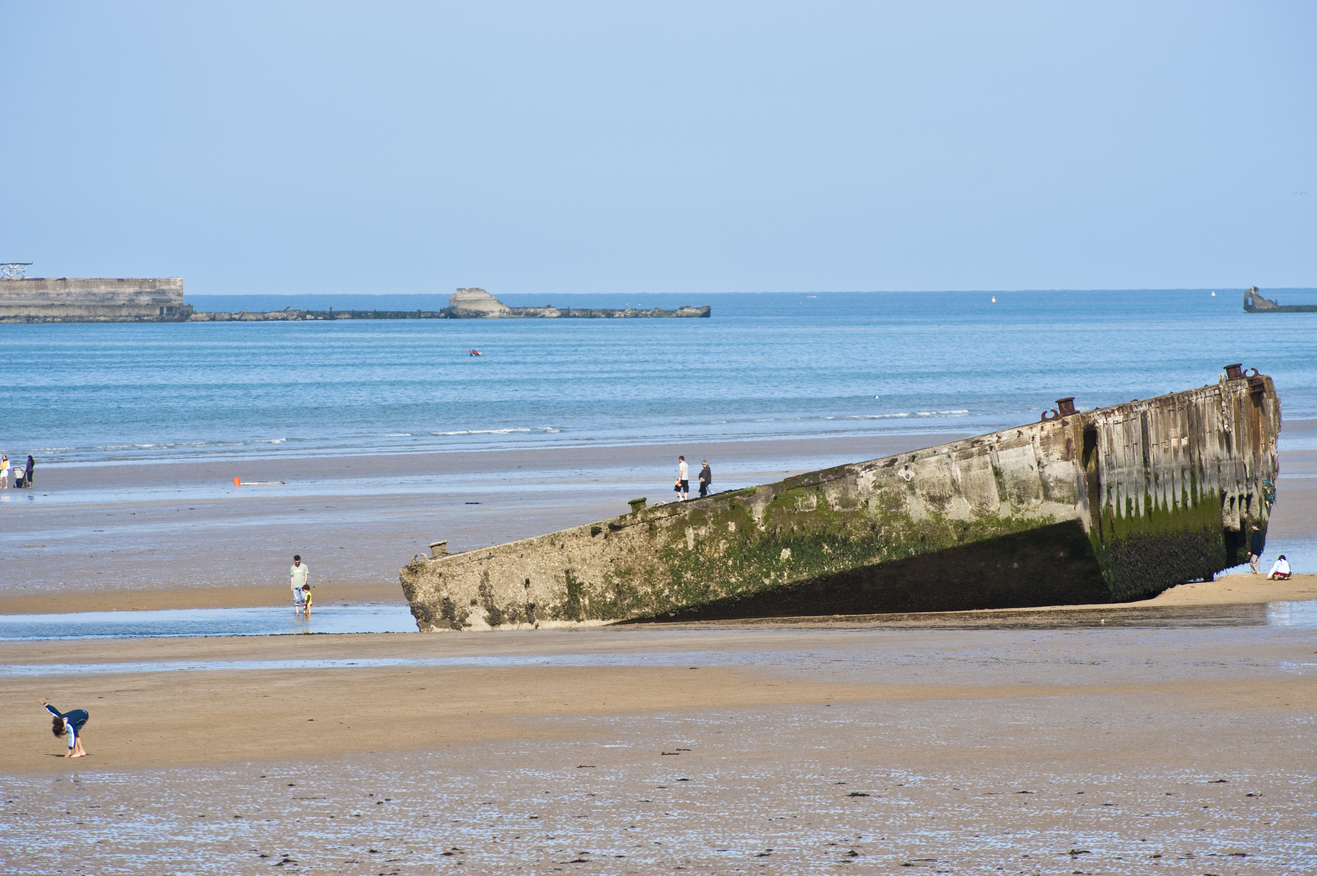 Arromanches vestige port mulberry